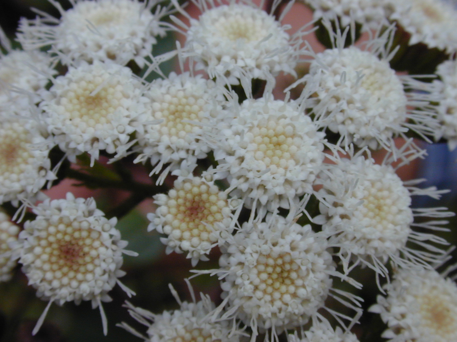 Ageratina adenophora (flowers). Location: Maui, Makawao Forest Reserve